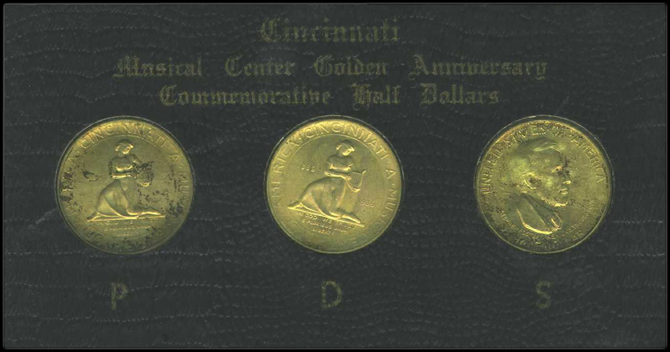 1936 Cincinnati Musical Center half dollar set in holder of issue (263-6136)